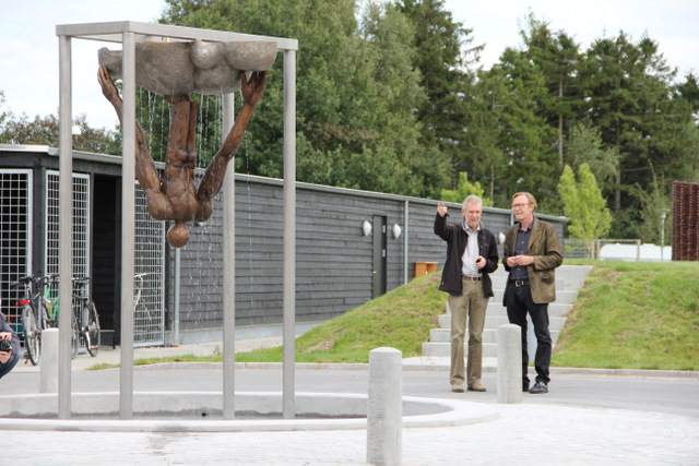 Sail away to the land you know so well, sculpture by Poul R. Weile, Sedenhuse, Denmark, 2011, art in public space